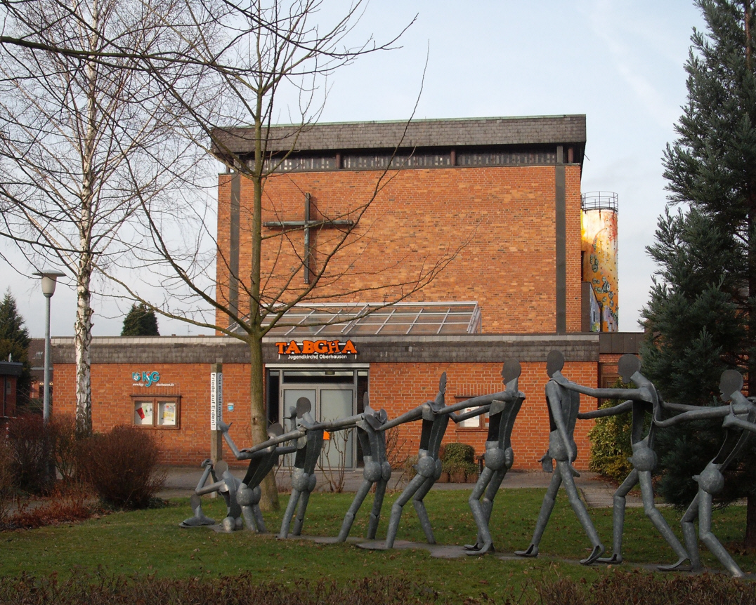 Tabgha church in Buschhausen, rom-catholic church for young people